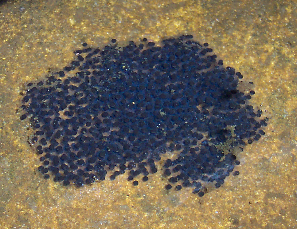 Spawn of the Lesueur's Frog (Litoria lesueuri) from southern Sydney.